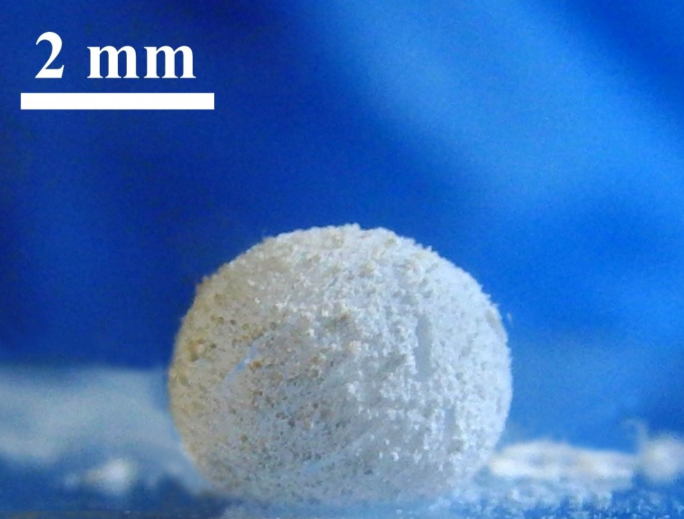 marble